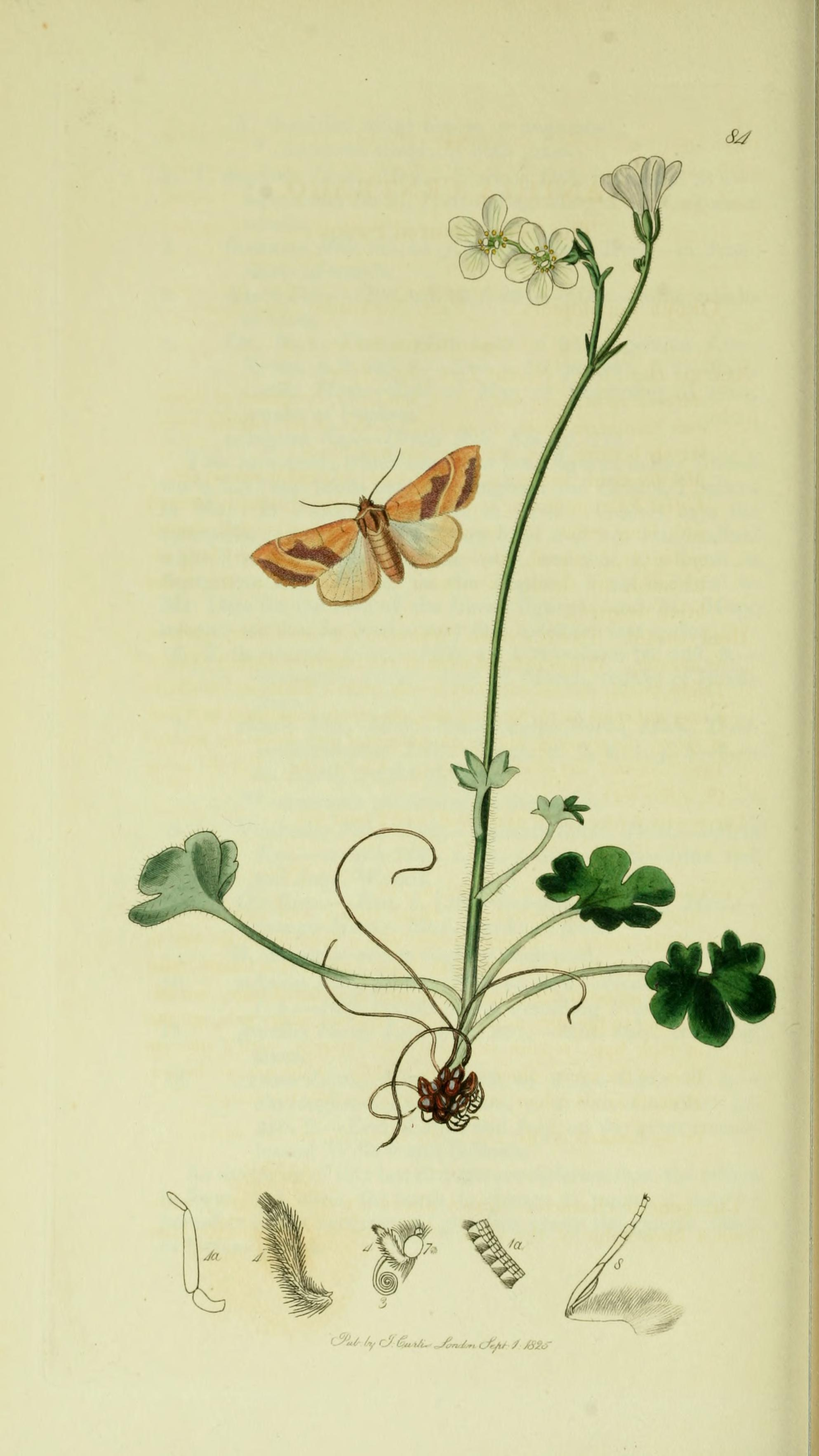 An illustration from British Entomology by John Curtis. Xanthia centrago or Atethmia centrago (Centre-barred Sallow).